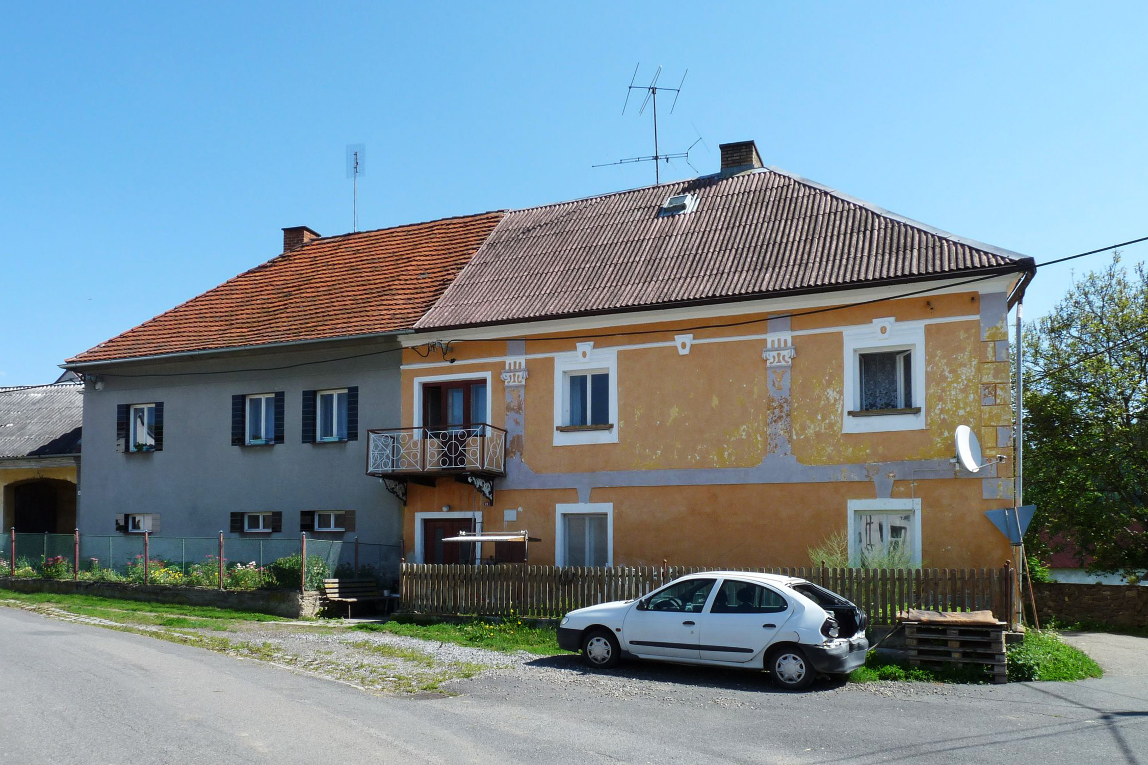 Former chateau in the municipality of Podmokly, Klatovy District, Plzeň Region, Czech Republic.